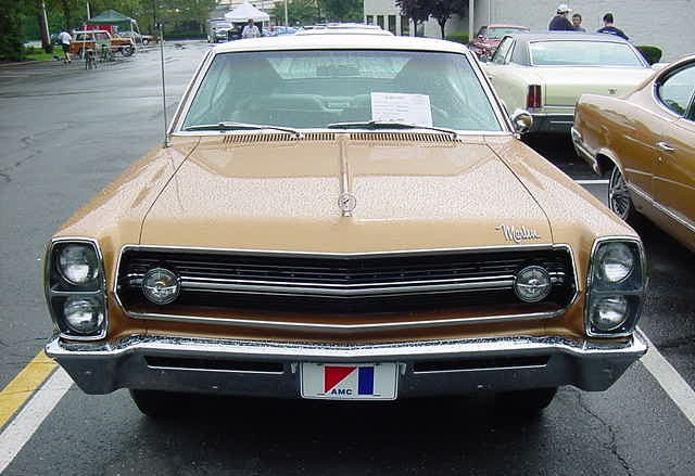 1967 AMC Marlin (by American Motors Corporation), a full-sized, two-door pillarless fastback personal luxury car. Finished in two-tone "Sungold metallic" (paint code P-37) and "Frost White" (roof, rear decklid, and lower bodyside) factory original. Front view. Photographs taken at the AMCRC (AMC Rambler Club) car show held in Somerset, New Jersey, USA.